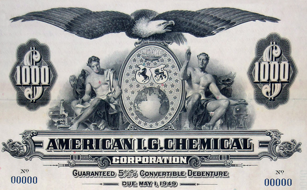 1929 American IG Chemical Corporation debenture (unsecured bond). On March 11, 1942, the United States Government took control of all Nazi Germany-related assets in the country including American IG, since the company was an affiliate of IG Farbenindustrie.